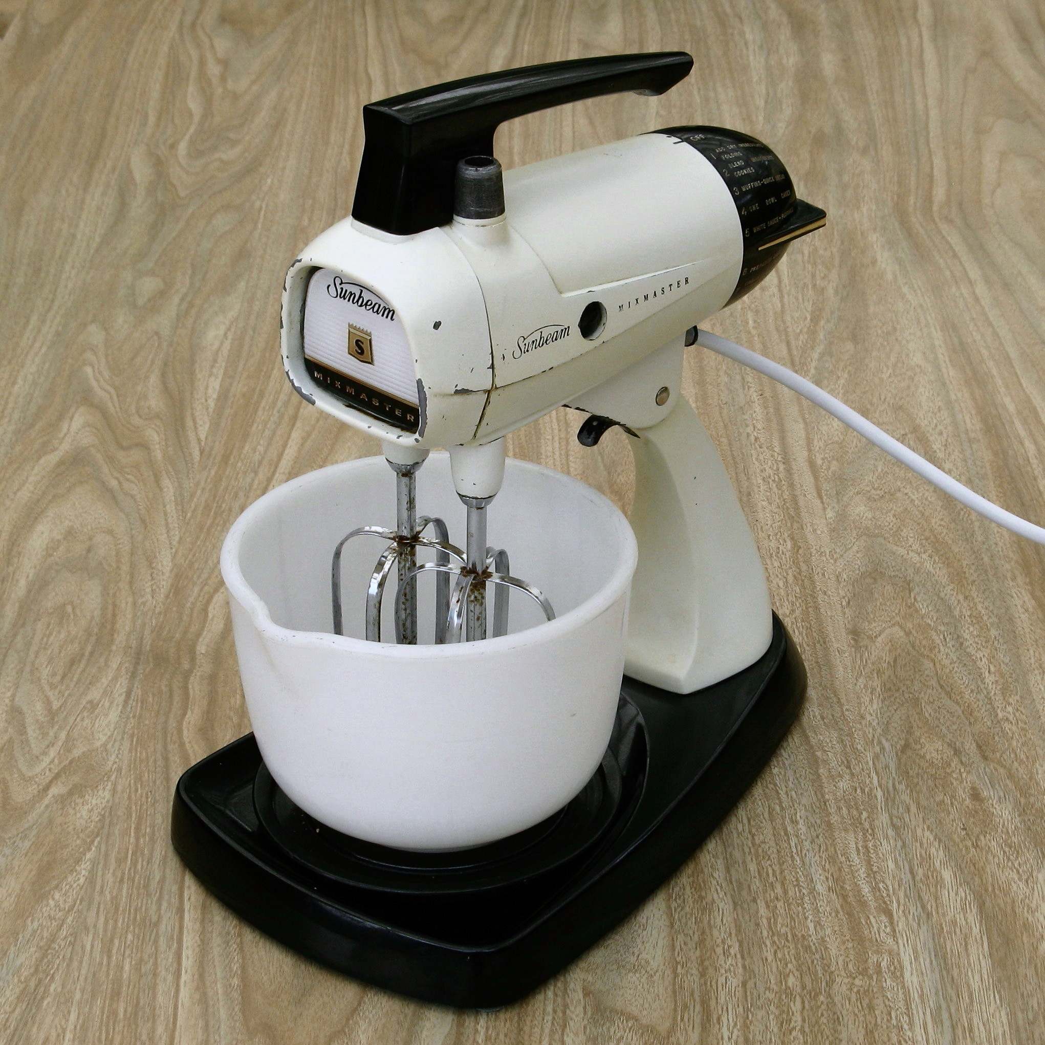 Sunbeam Mixmaster, model A24, circa 1969–72